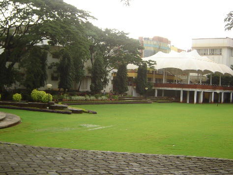 Manipal Greens commonly known as KMC greens. Convocation, University celebrations are held here.